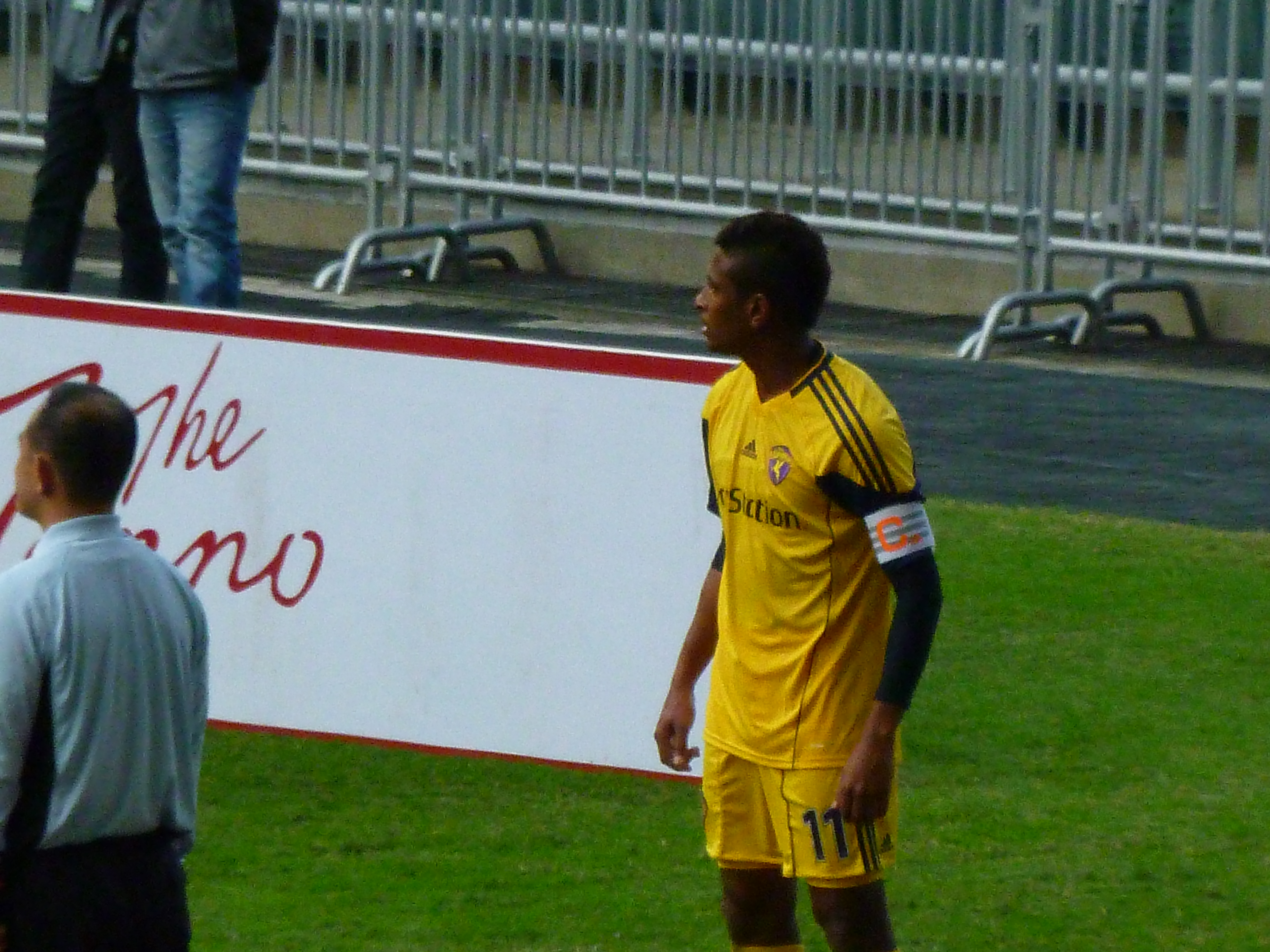 Manoel dos Santos Filho (Itaparica) (25 Dec 2011 Hong Kong Senior Challenge Shield semi-final 2nd round South China vs TSW Pegasus at Hong Kong Stadium)